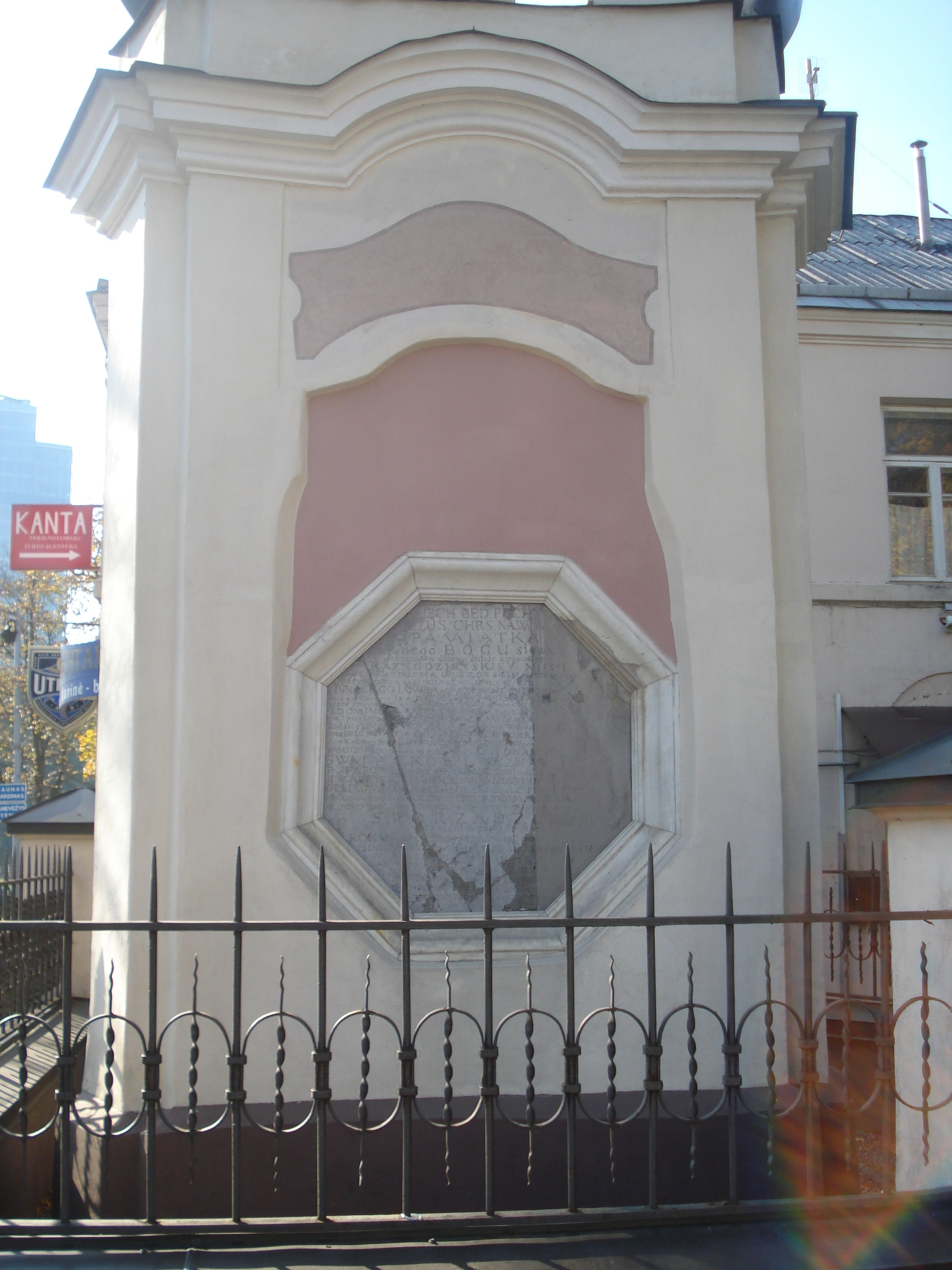 Chapel of St. Jacek (St. Hyacinthus) in Vilnius. Stone 1762. Old plaque